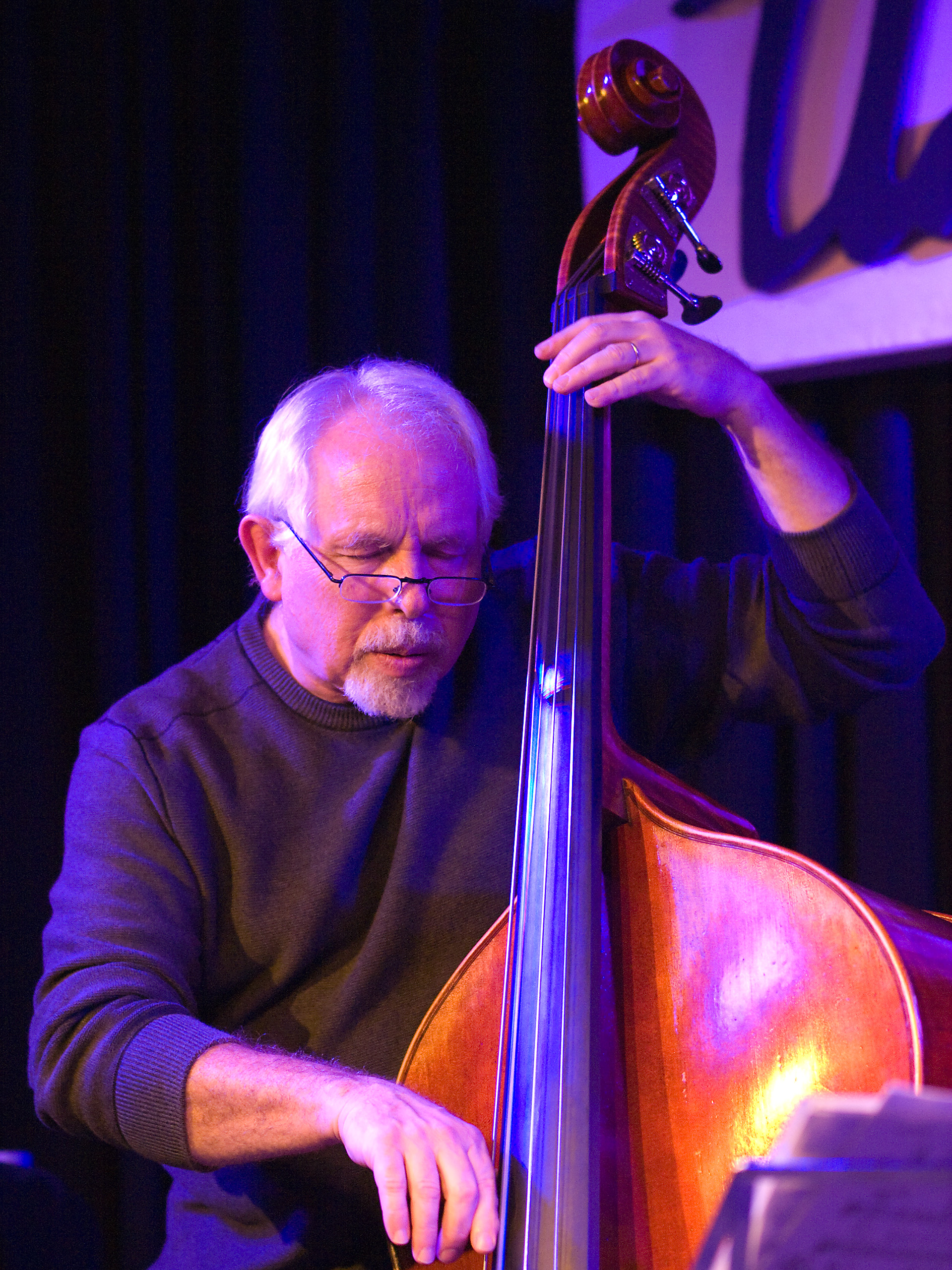 Cameron Brown, jazz bassist, picture taken in Jazz club "Unterfahrt" in Munich/Germany